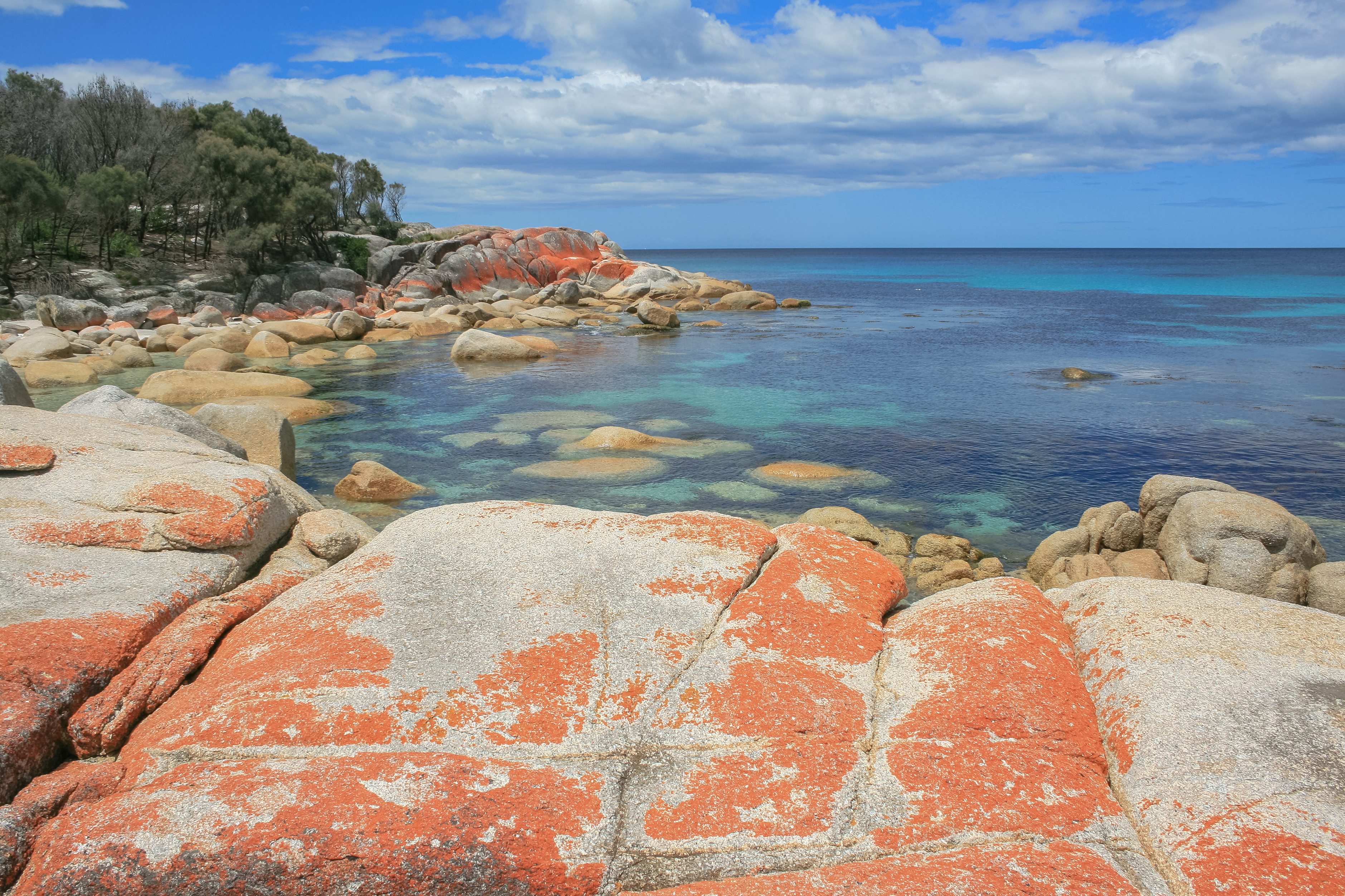 Bay of Fires, Tasmania, Australia